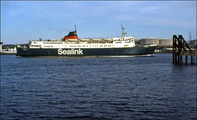 The "Antrim Princess" at Larne. The British Rail car ferry "Antrim Princess" arriving at Larne from Stranraer. This was in the run-up to privatisation of the BR ferry and harbours division (operating under the name "Sealink") - the broken arrows had been removed from the funnel. See also 1078989 and 1084862.